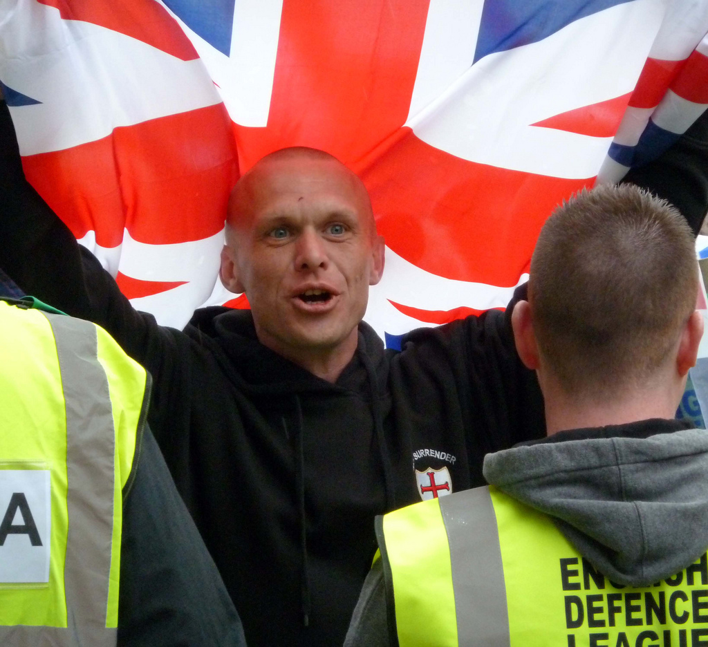 English Defence League march in Newcastle